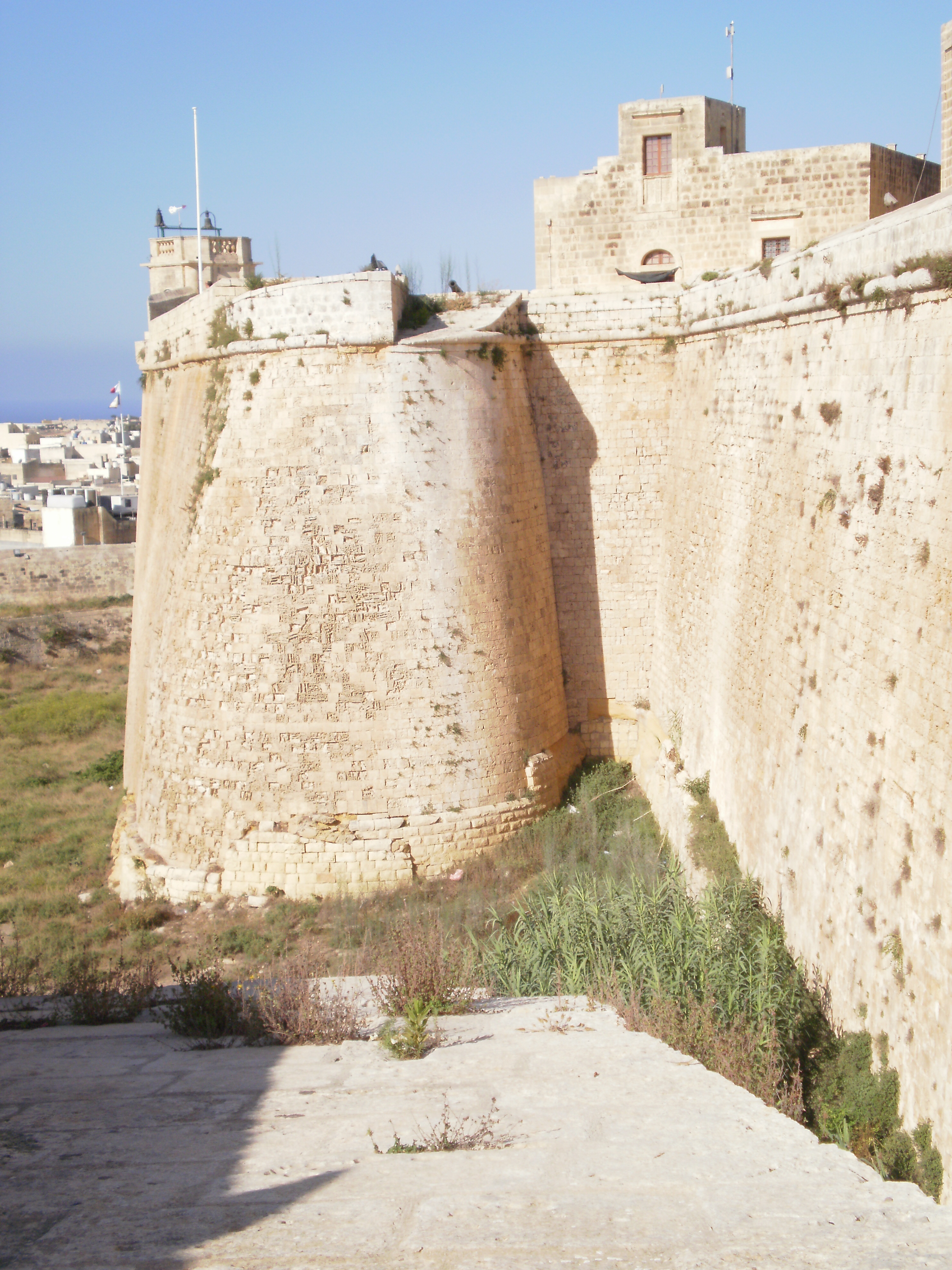 The fortifications of St. Michael's Bastion in the Citadella, Victoria, Gozo. Malti: Is-swar tal-Bastjun ta' San Mikiel fiċ-Ċittadella, ir-Rabat, Għawdex.